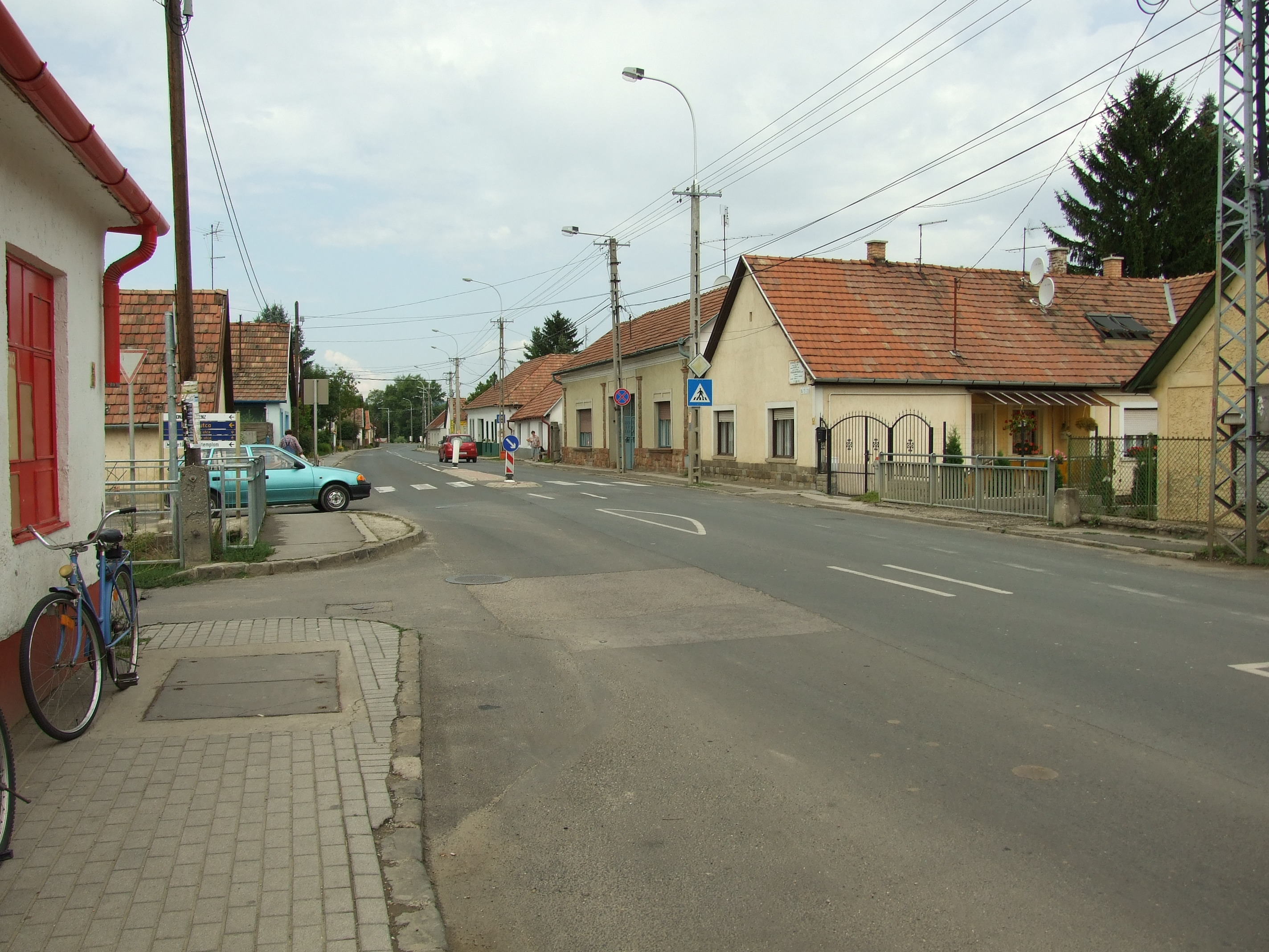 Town of Dömös, Pest comitat, Hungaryhelp